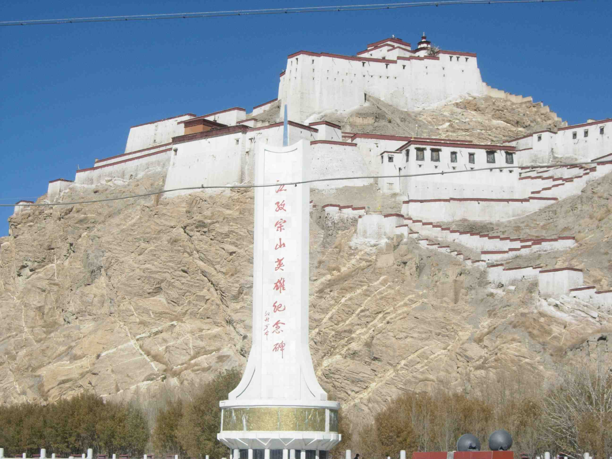 Gyantse Fortress, Original accompanying text: Photograph taken by Mark Evans in November 2005 with a Nikon Coolpix 5200